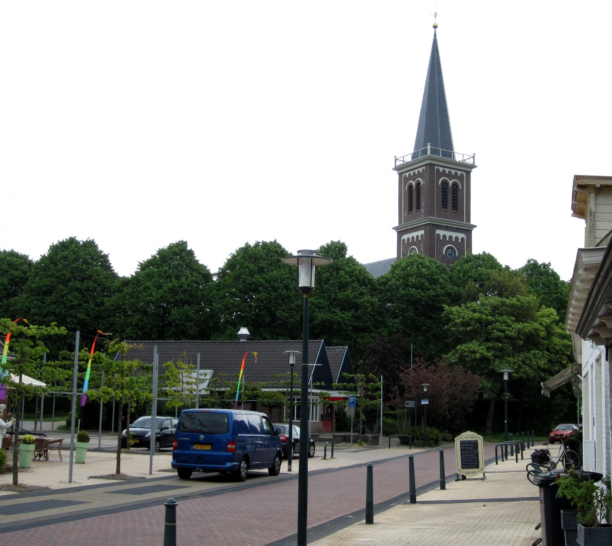 Greatebuorren (street) in the village of Menaam (Menaldum), Friesland, the Netherlands, with the church tower in the background.